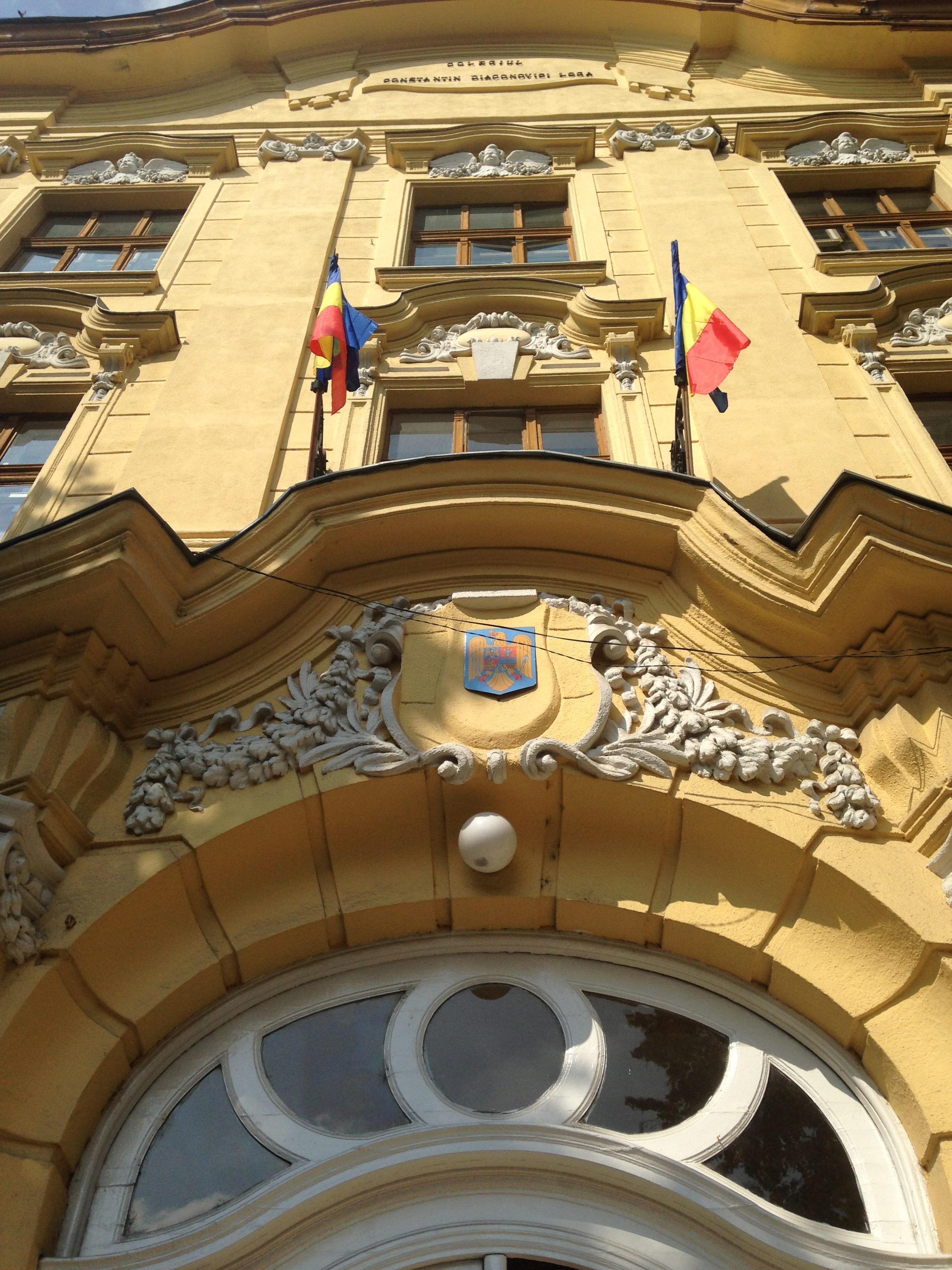 The entrance in the "C. D. Loga" College